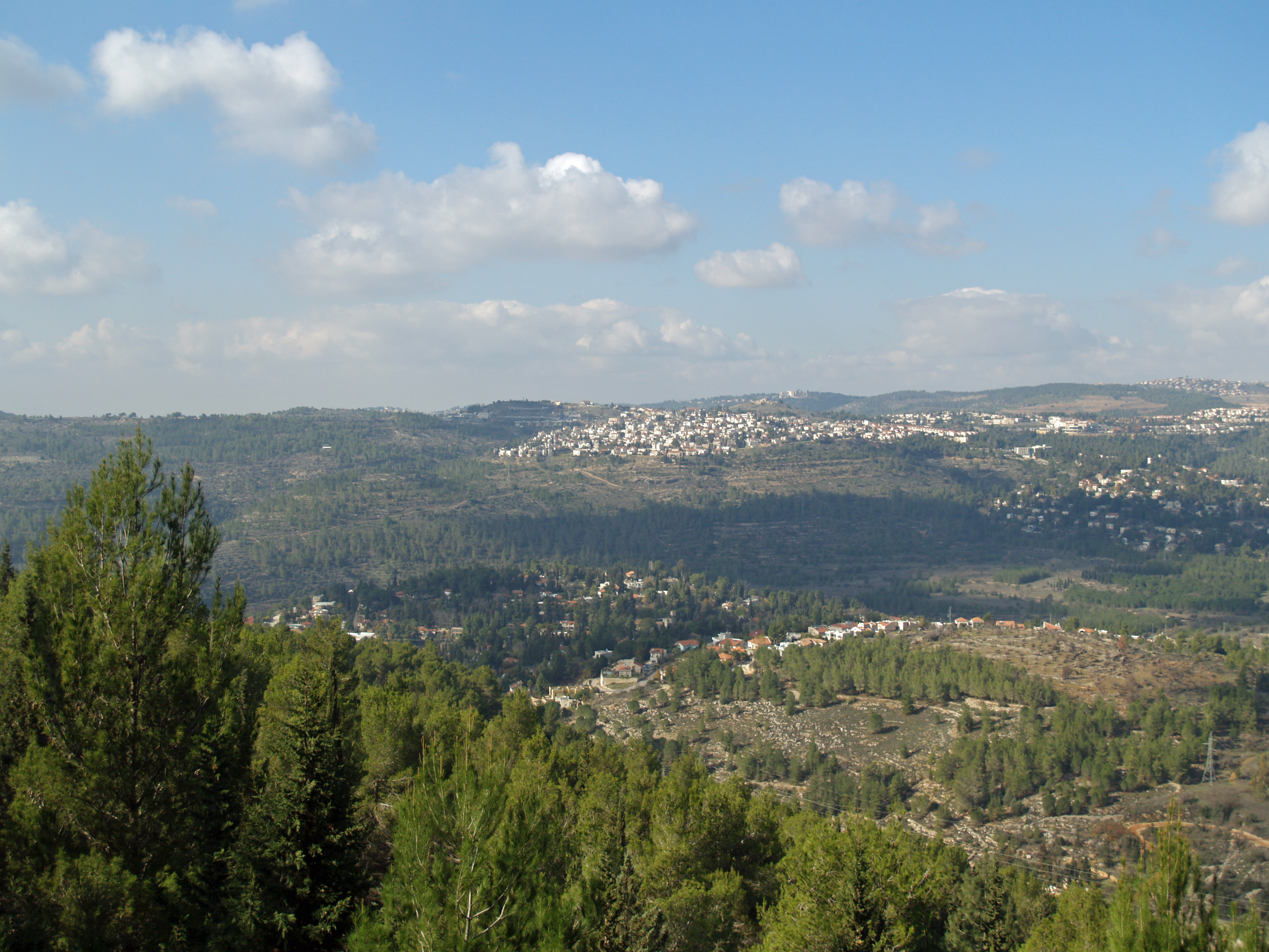 Yad Vashem view of Jerusalem valley.